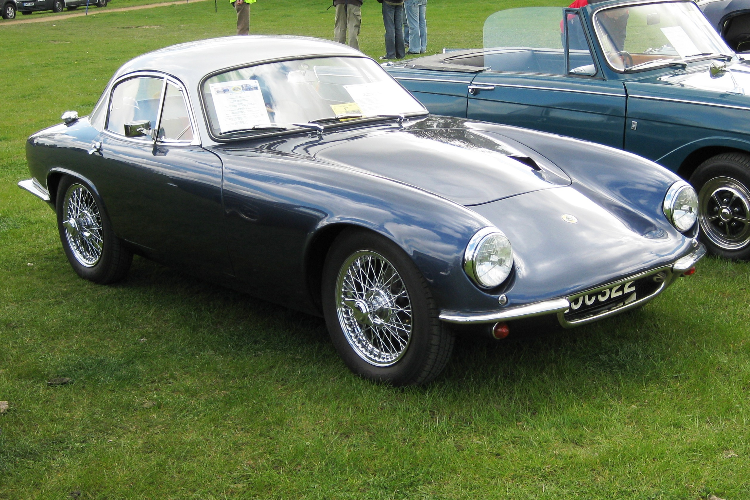 Lotus Elite near Biggleswade